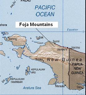 Map showing location of Foja Mountains. 2002 public domain CIA map edited by author. All rights released worldwide.